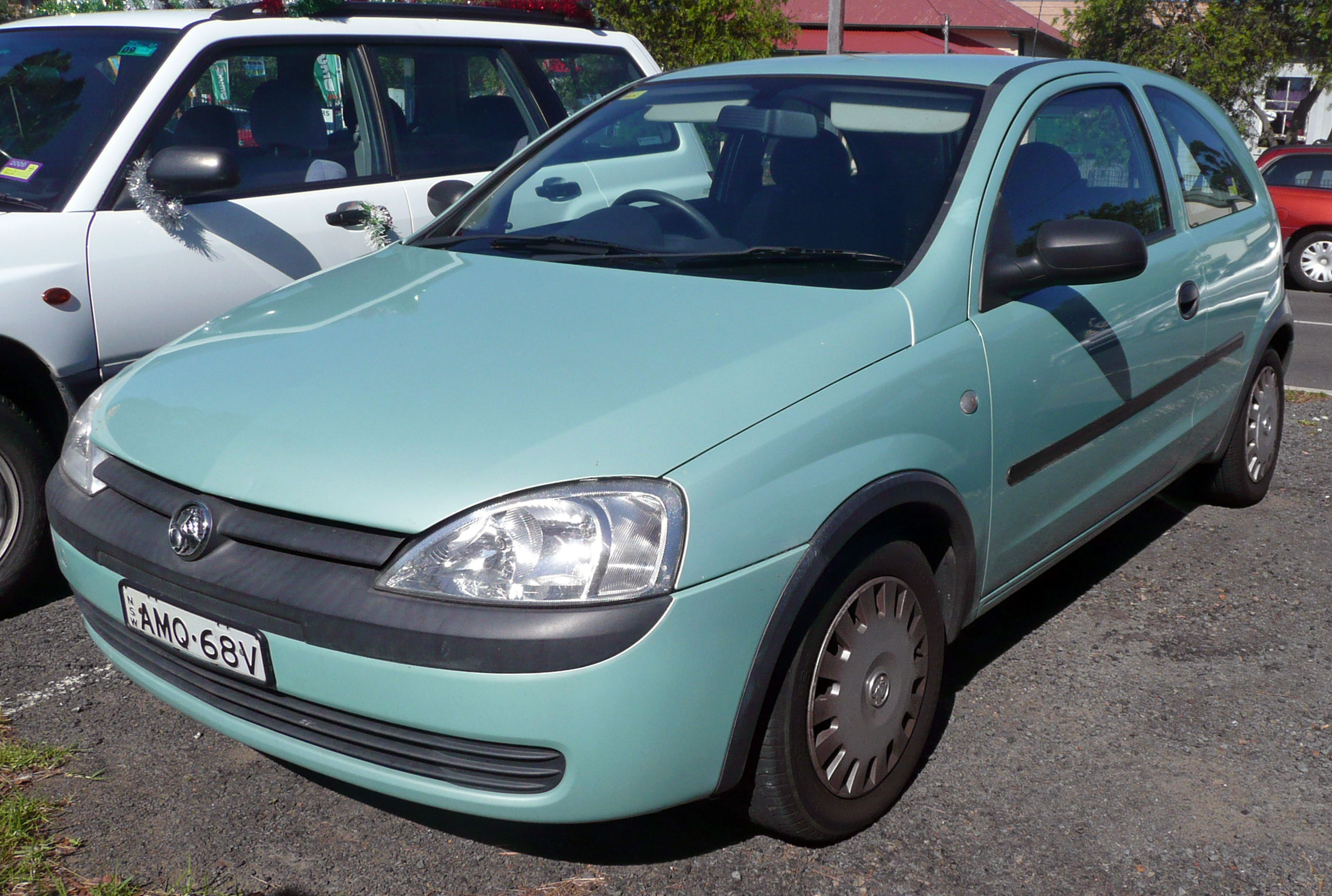 2002 Holden Barina (XC) 3-door hatchback. Photographed in Sutherland, New South Wales, Australia.